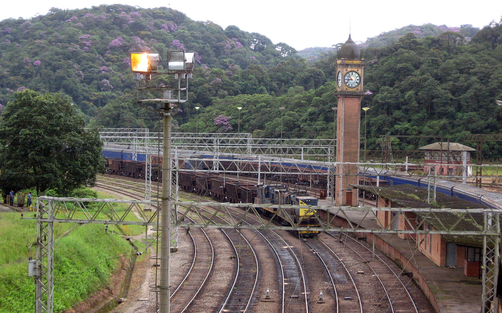 Paranapiacaba's Clock Tower, State of São Paulo, Brazil.